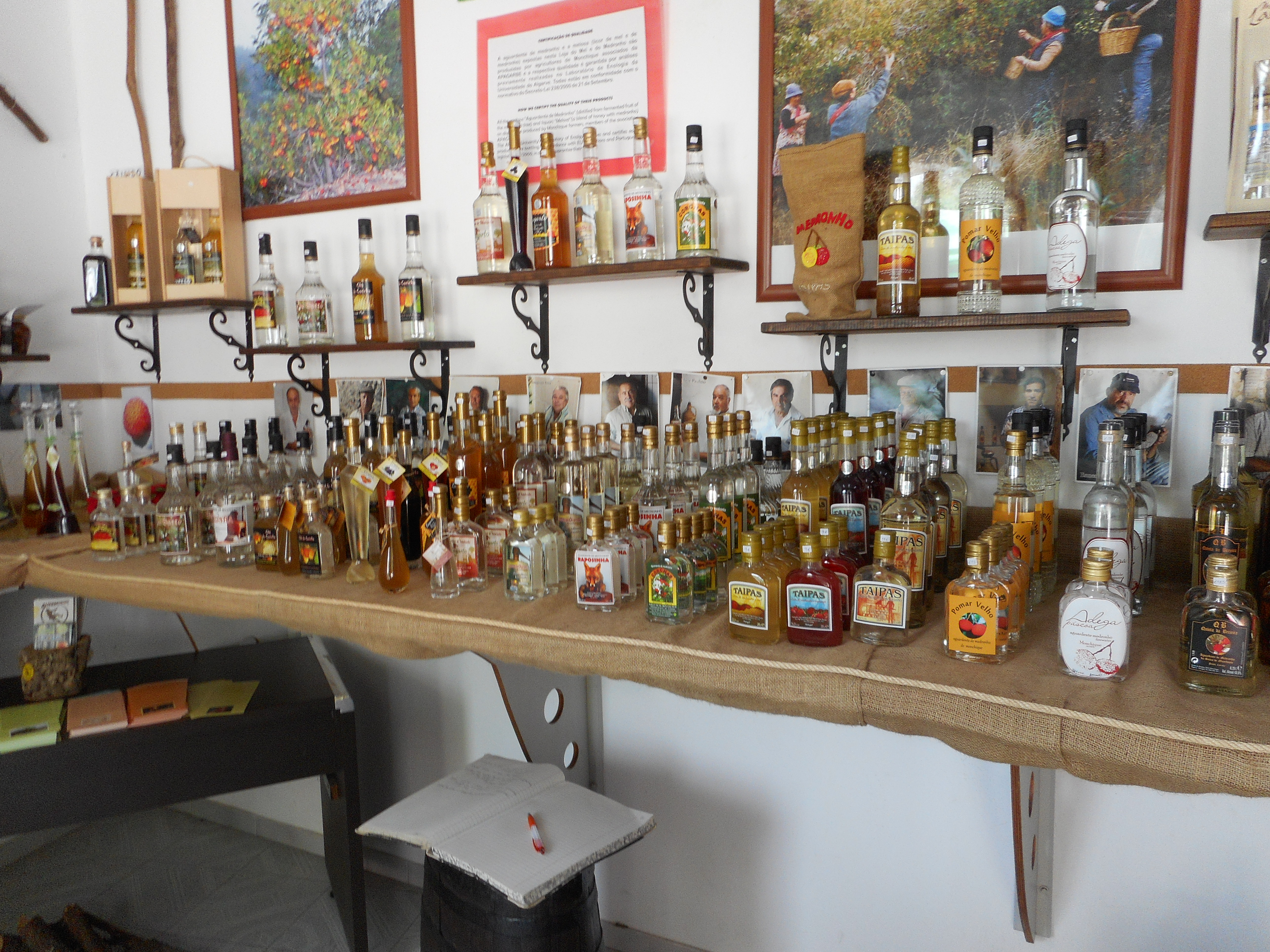 The display of Aquardente de medronho inside the medronho shop on the Rua Engenheiro Duarte Pacheco, Monchique, Algarve, Portugal. Aquardente de medronho is a local berry brandy distilled from the fruit of the strawberry tree (arbutus) typical of the mountains Monchique in Area.